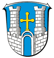 Coat of Arms of Gudensberg